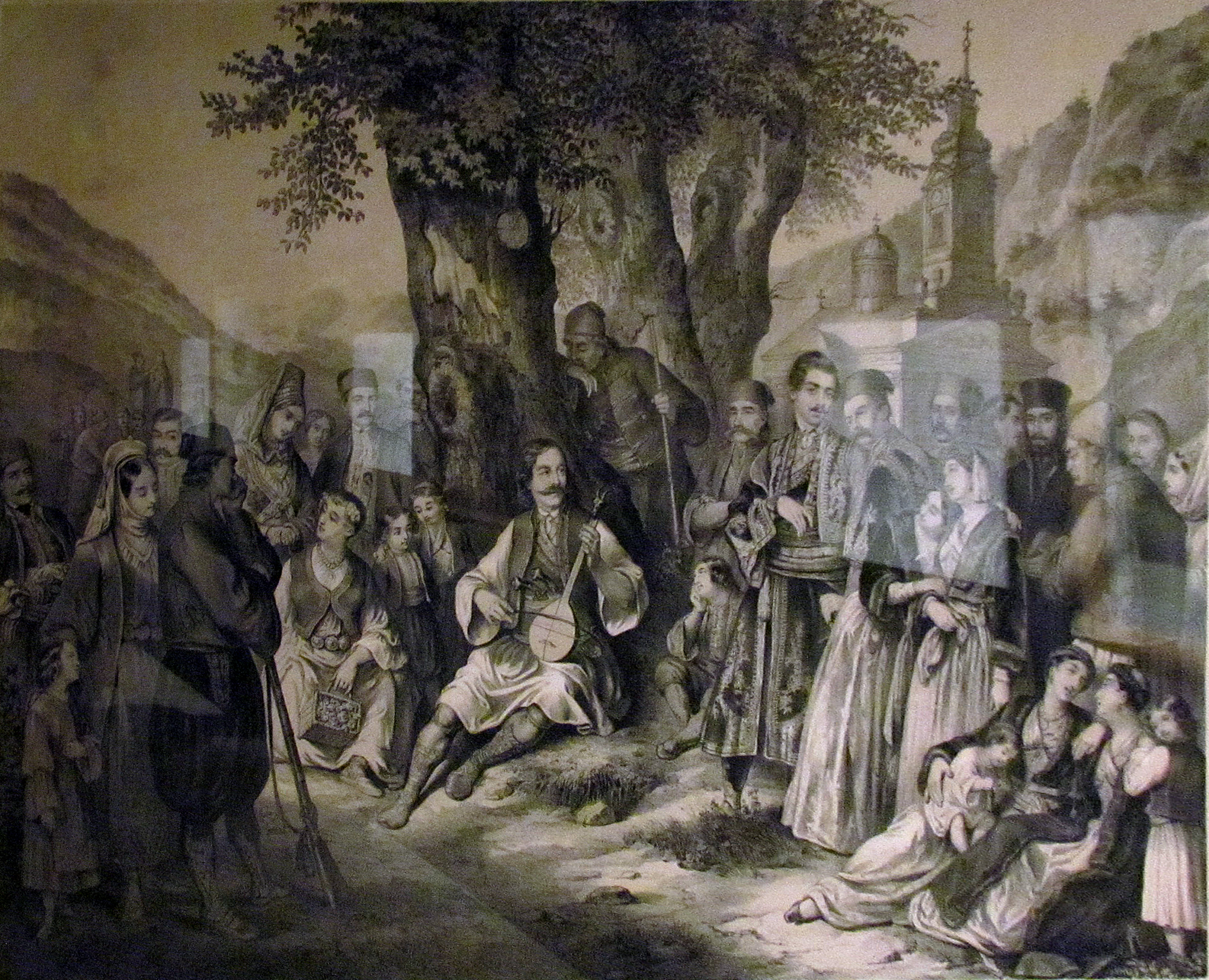 Anastas Jovanović, Serbs Around a Singer, 1848, lithograph, National Museum of Serbia